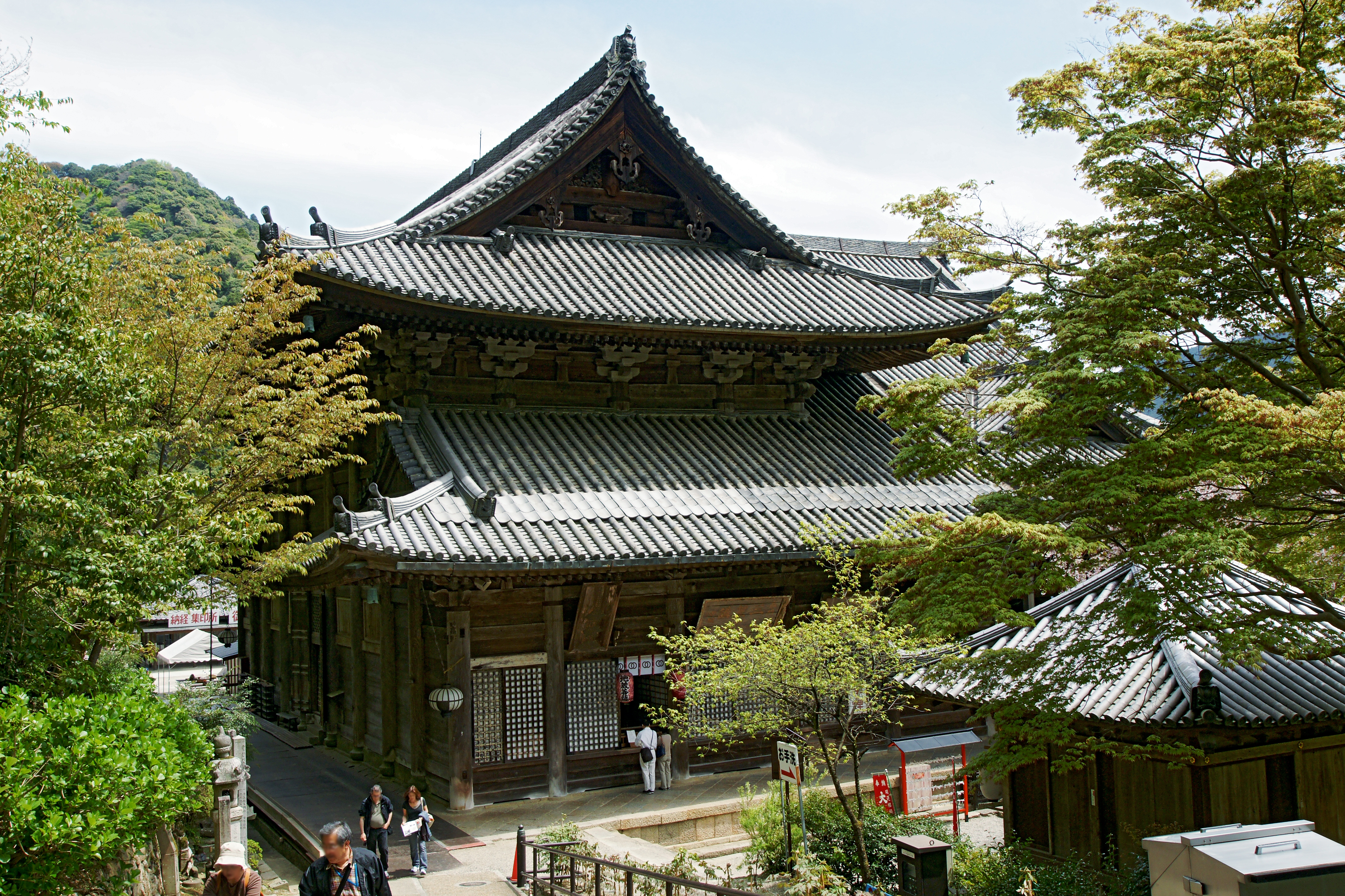 Hondo of Hasedera Buddhist temple (Japan's national treasure), Sakurai, Nara prefecture, Japan